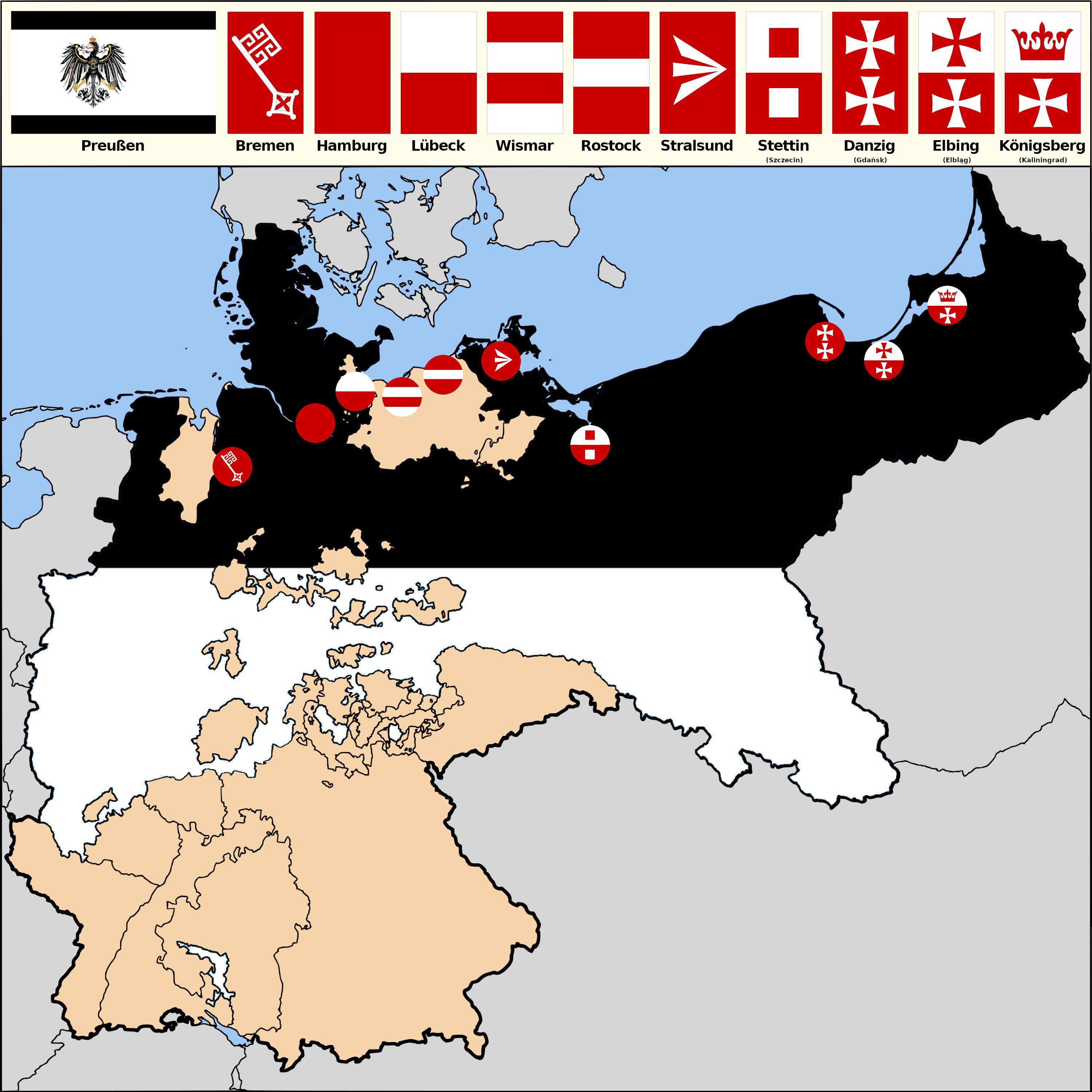 The map shows the origin of the colors of the German Reich or the North German Confederation. Prussia is dyed black and white in its country colors. A selection of important Hanseatic cities with red or red-white flags was drawn into the map. Above the map is ist cartographic symbology. The map shows that the colors black-white-red do not represent all Germans, because they imply a dominance of Northern Germany.